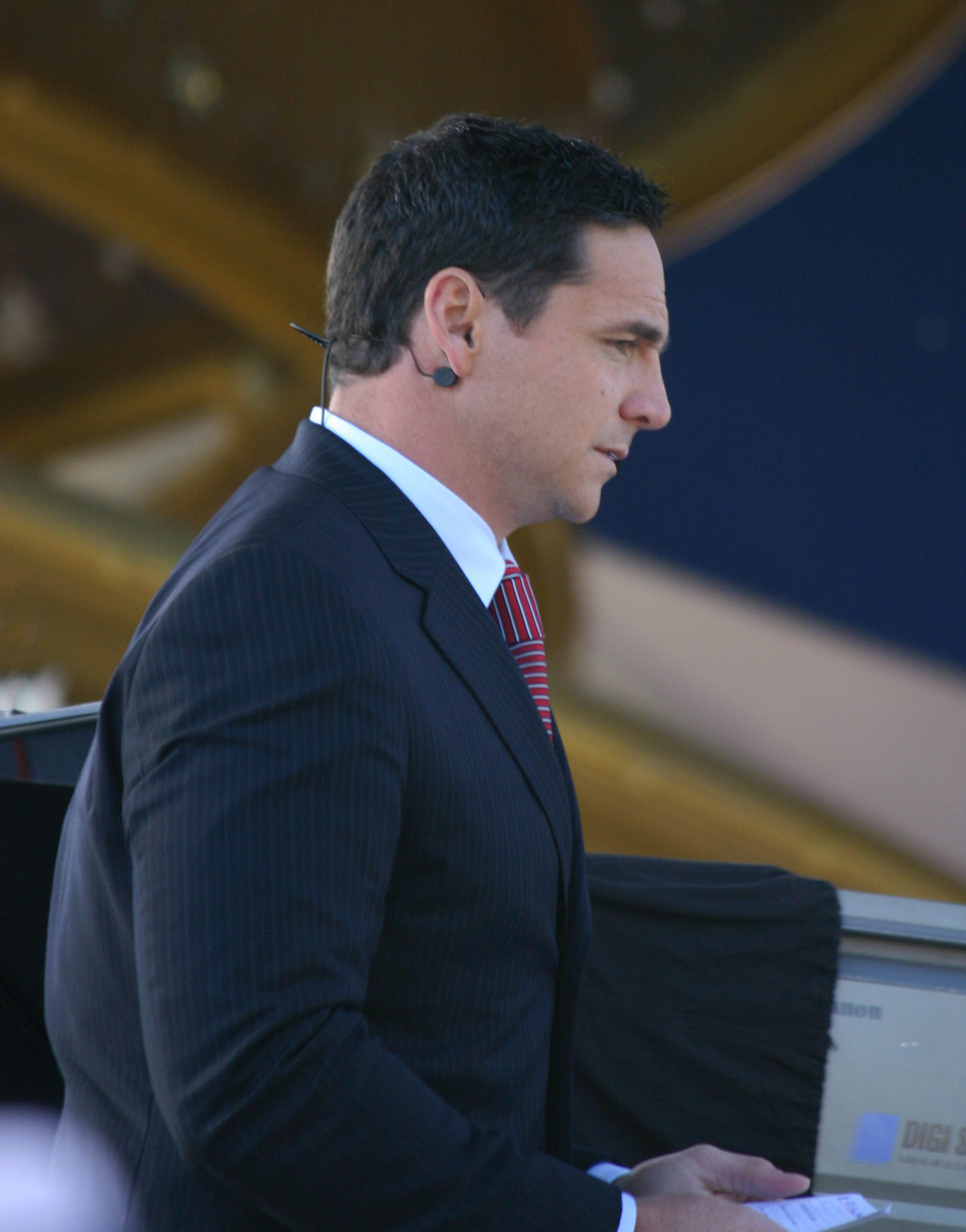 Jay Feely broadcasting First Take Live on ESPN at ESPN The Weekend, February 26, 2010